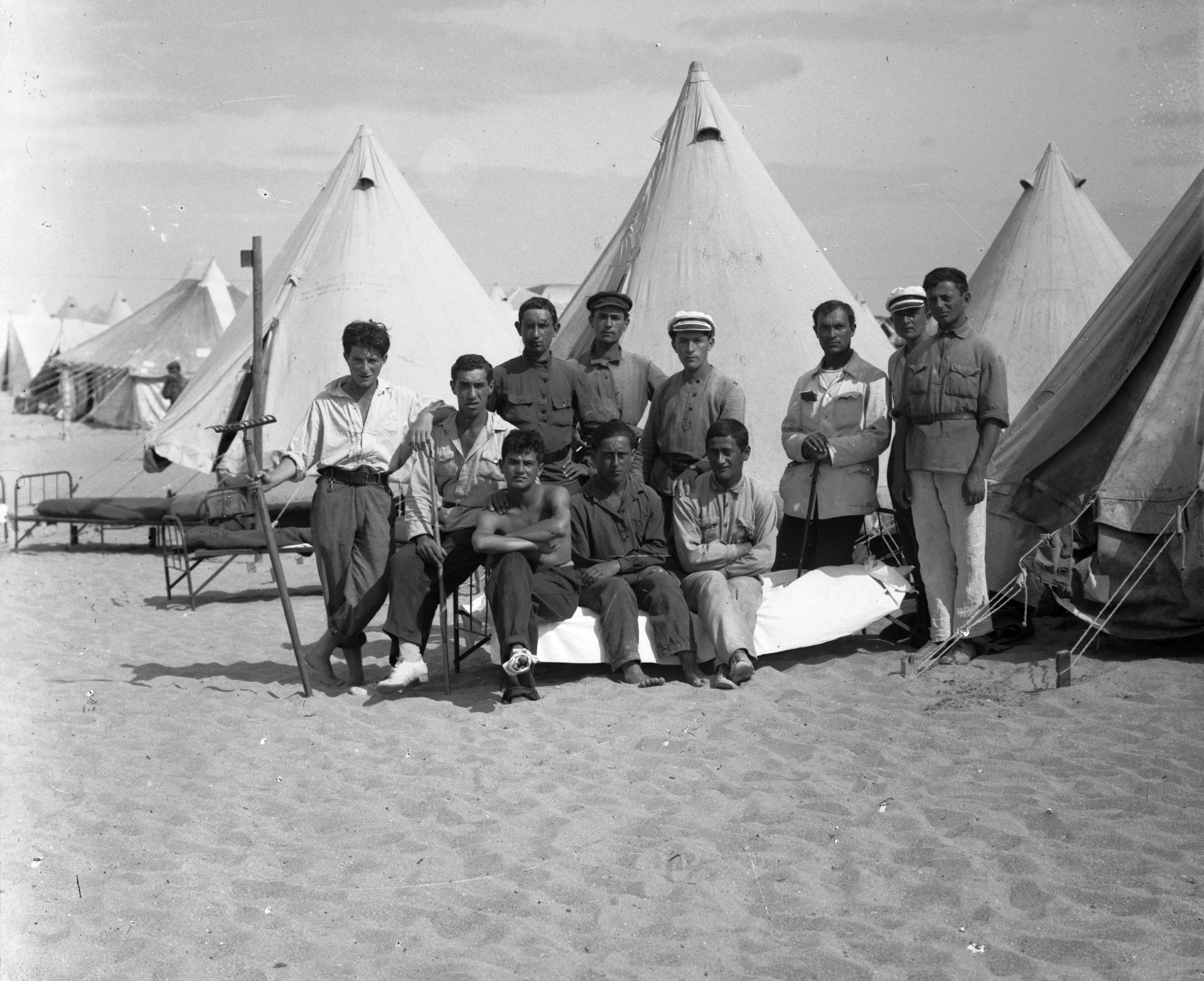 Jewish colonies and settlements. Tel Aviv. Emergency camp at Tel Aviv.